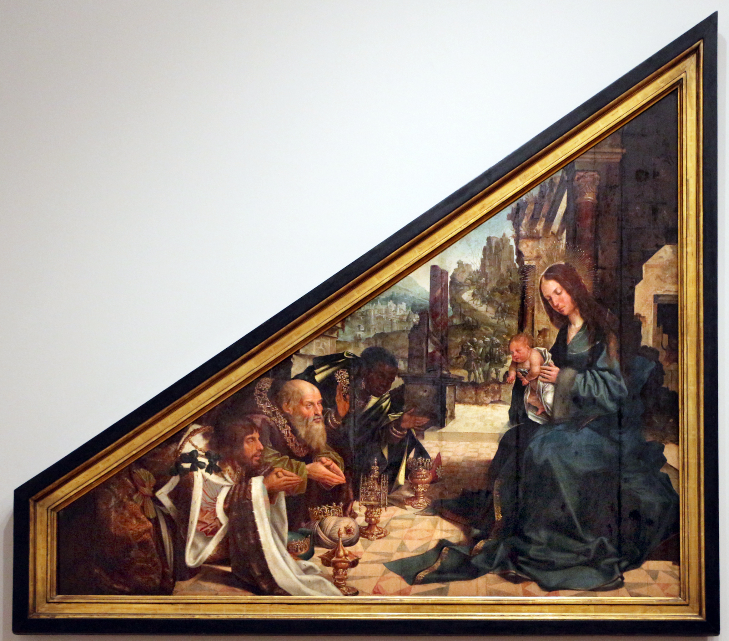 Políptico do Convento da Madre de Deus